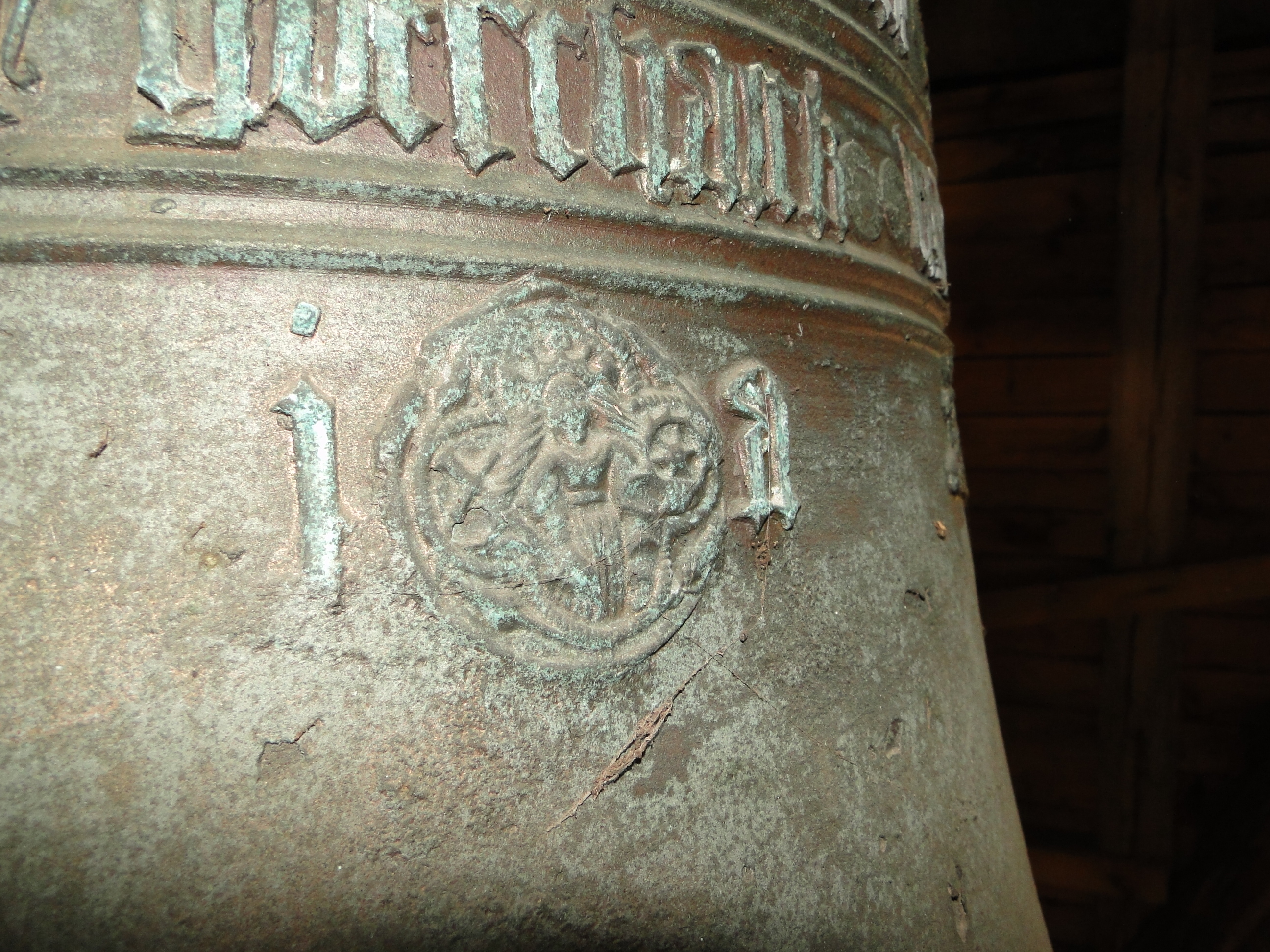 Bell in the church in Below, district Ludwigslust-Parchim, Mecklenburg-Vorpommern, Germany